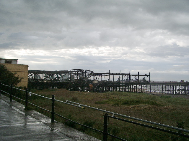 The demise of Fleetwood's pier Sadly another of our seaside attractions is destroyed by fire, as this was in the early hours of today (09/09/08)